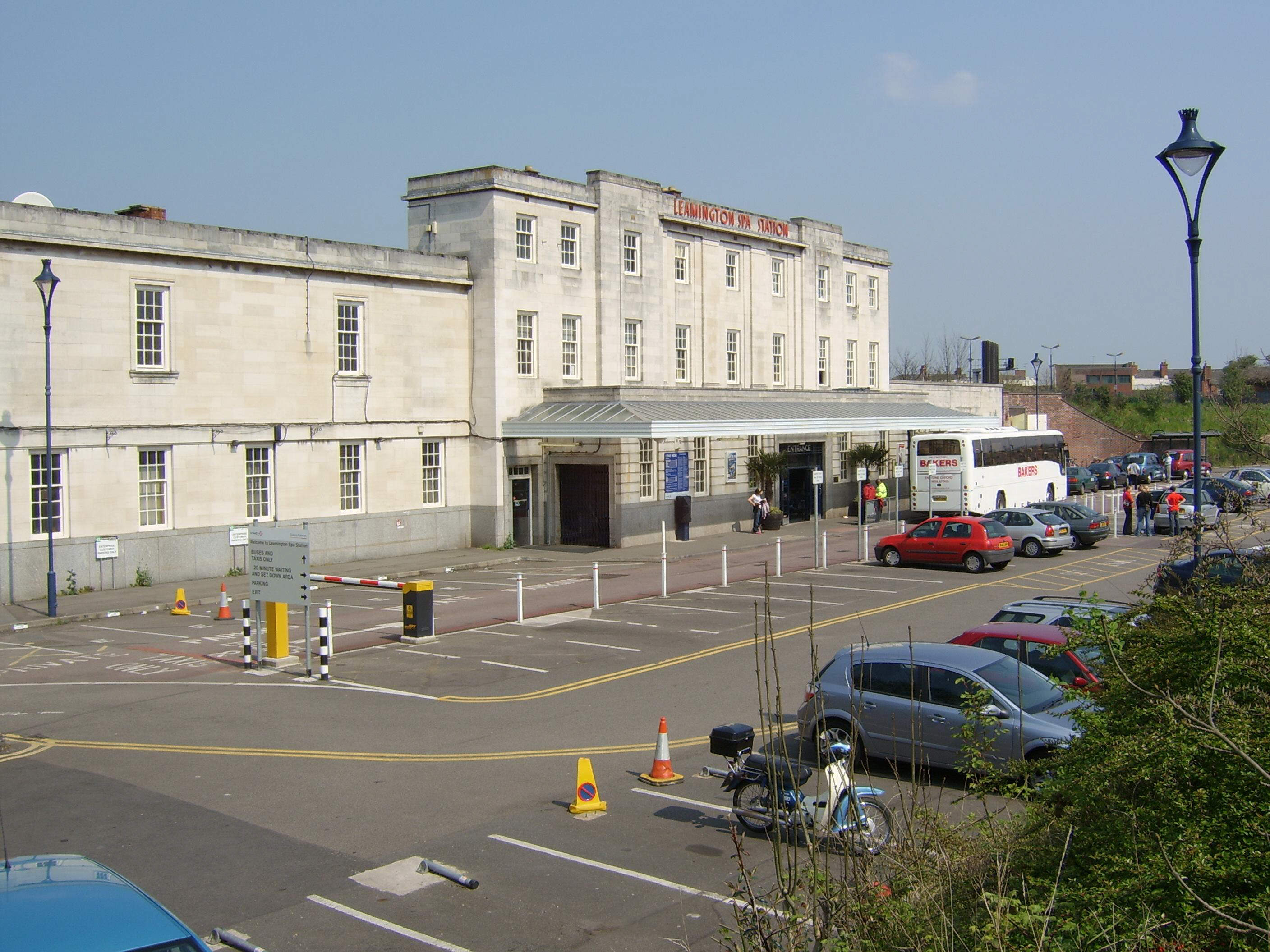 Exterior view of Leamington Spa railway station.